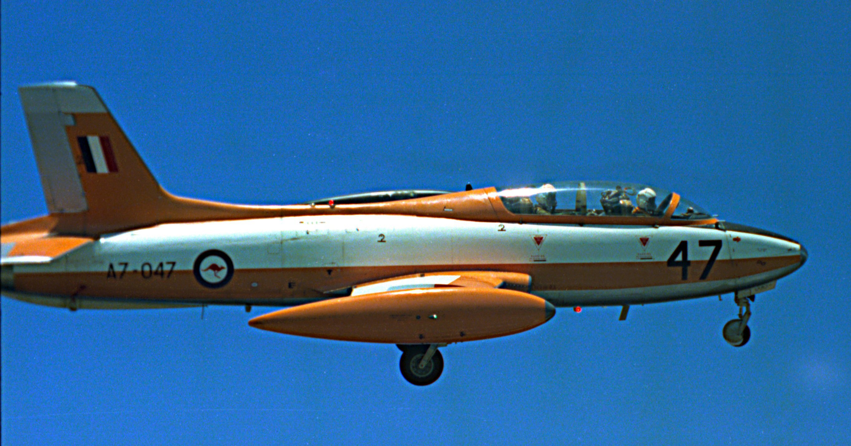 RAAF Macchi MB-326 A7-047 in flight, off Fremantle during a flypast of Australian aircraft carrier HMAS Melbourne, circa August 1980